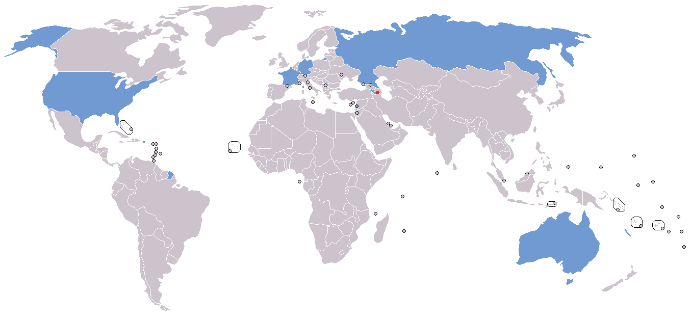 Map of diplomatic missions of the Nagorno-Karabakh Republic (NKR) NKR NKR embassy (none) NKR representative office NKR embassy, non-resident (none)